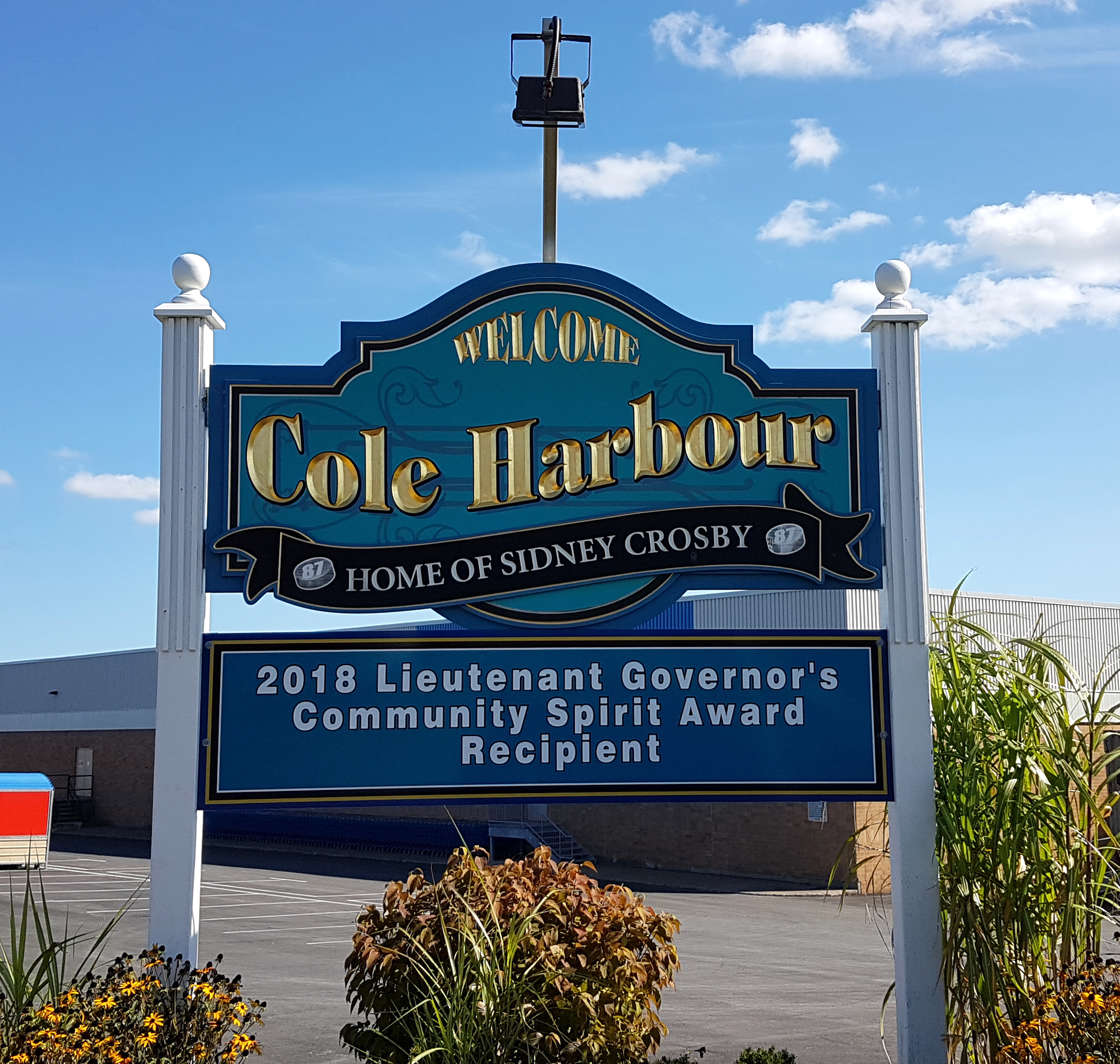 Photo taken on September 30, 2018 of the Cole Harbour "Home of Sidney Crosby" city sign at the corner of Cole Harbour Road and Caldwell Road in Cole Harbour, Nova Scotia, Canada.